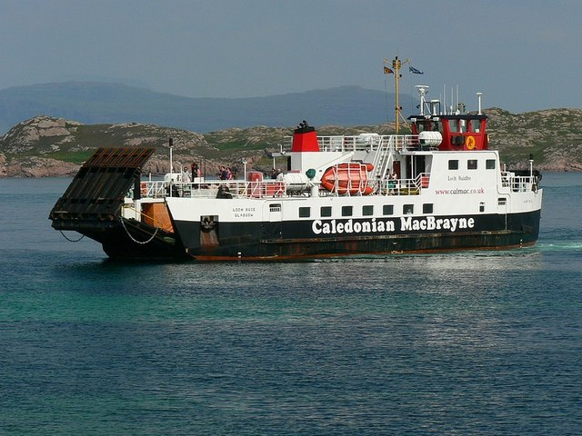 The Caledonian MacBrayne ferry Loch Buie from Mull arrives at Iona.